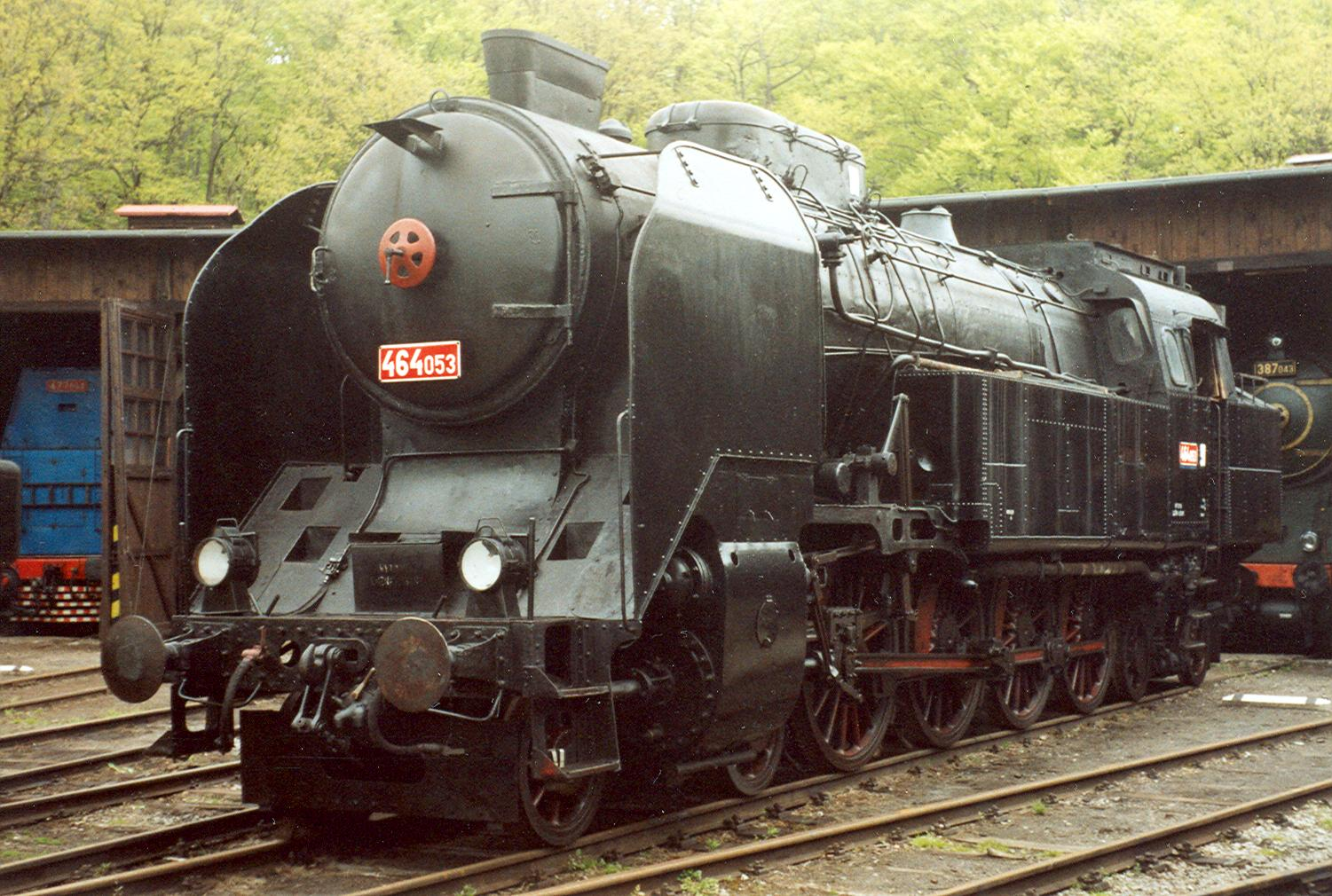 czech steam locomotive 464.053 in railway museum, Lužná u Rakovníka